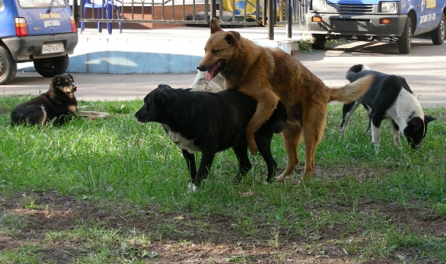 Stray dogs mating near "Fannies Pizza" on Usiyevich street in Moscow